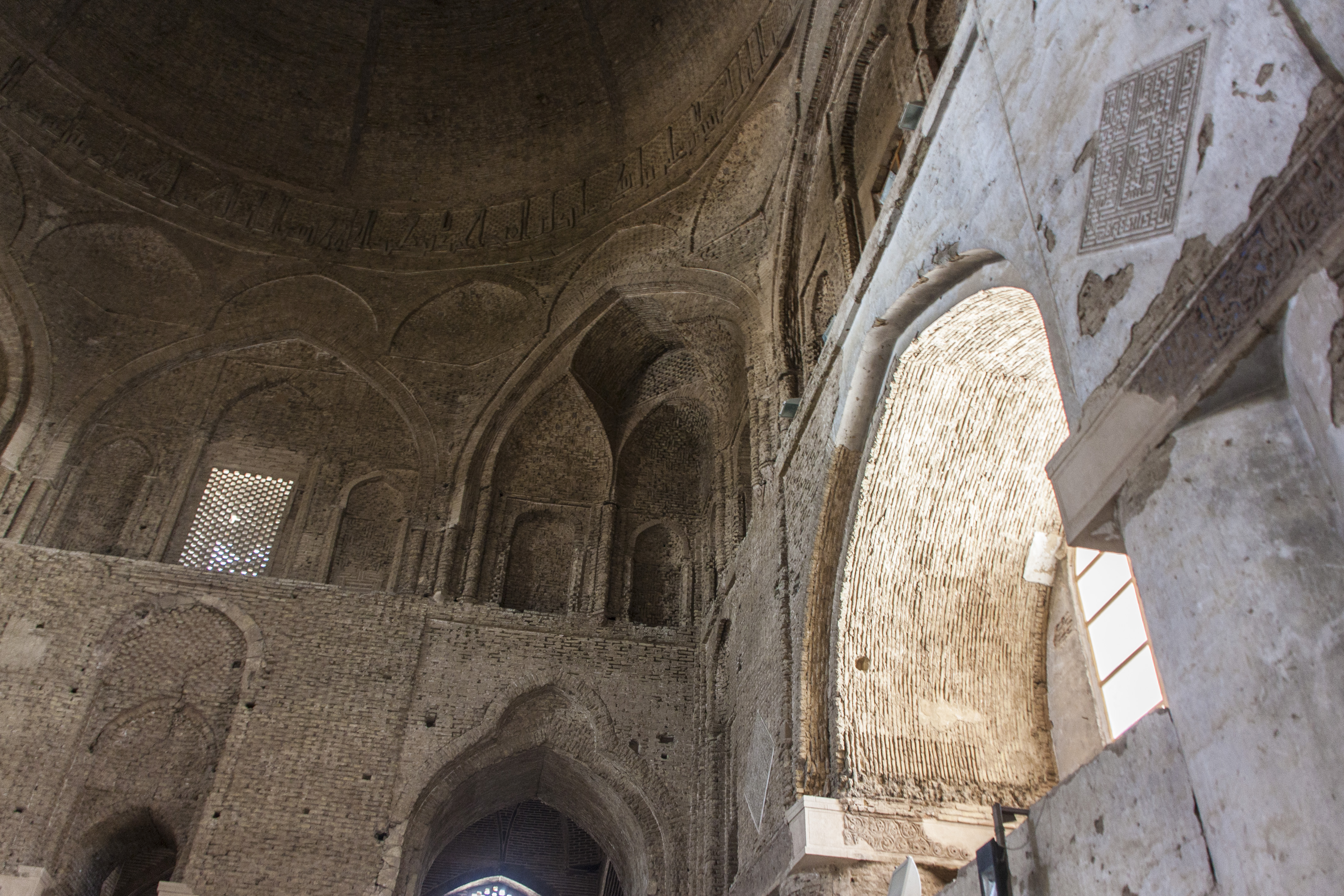 Dome chamber of Nezam al-Molk